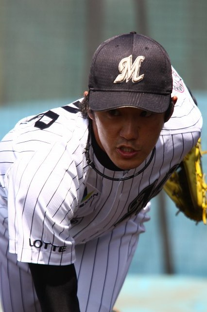 Hiroki Ueno, pitcher of the Chiba Lotte Marines, at Lotte Urawa Baseball Ground.